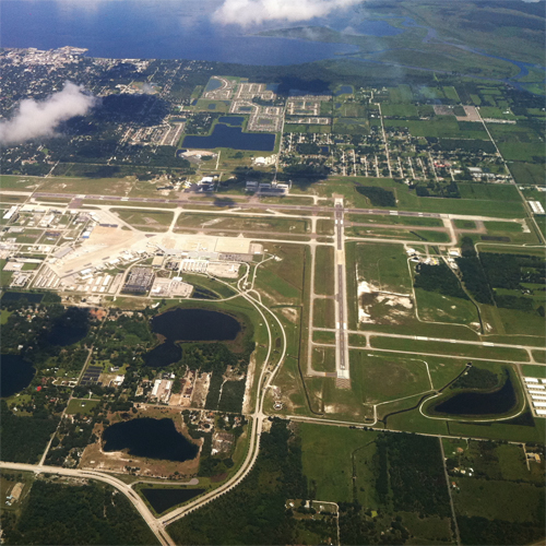 Aerial view of Orlando Sanford International Airport, as seen from a WestJet Boeing 737 en-route from Toronto Pearson International Airport to Orlando International Airport.